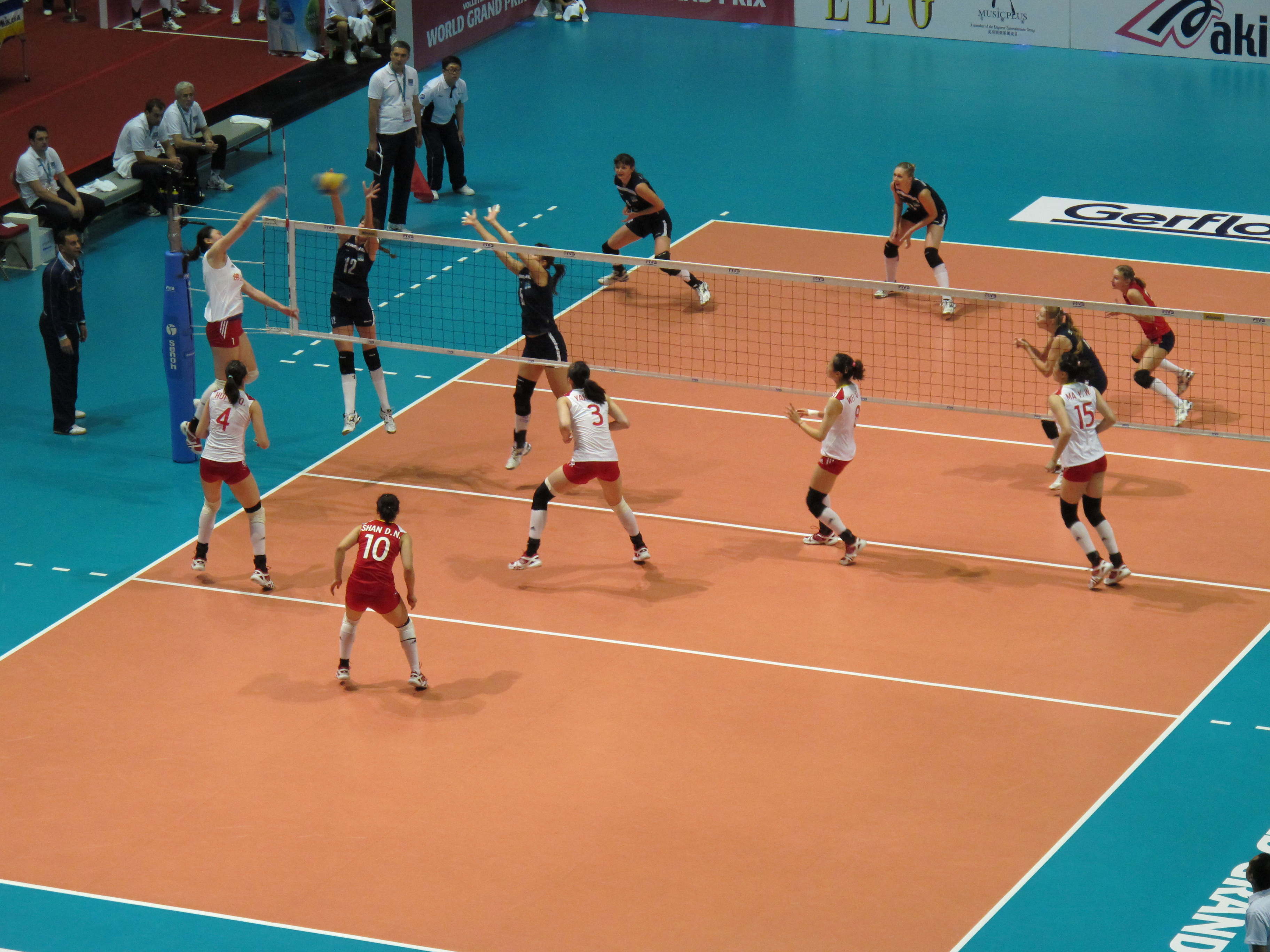 2011 FIVB World Grand Prix- Hong Kong